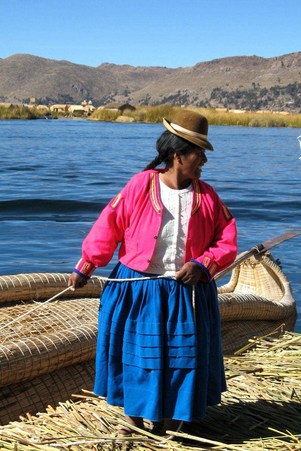 Uros are a pre-Incan people living on self-fashioned floating islets in Lake Titicaca, Peru and Bolivia.